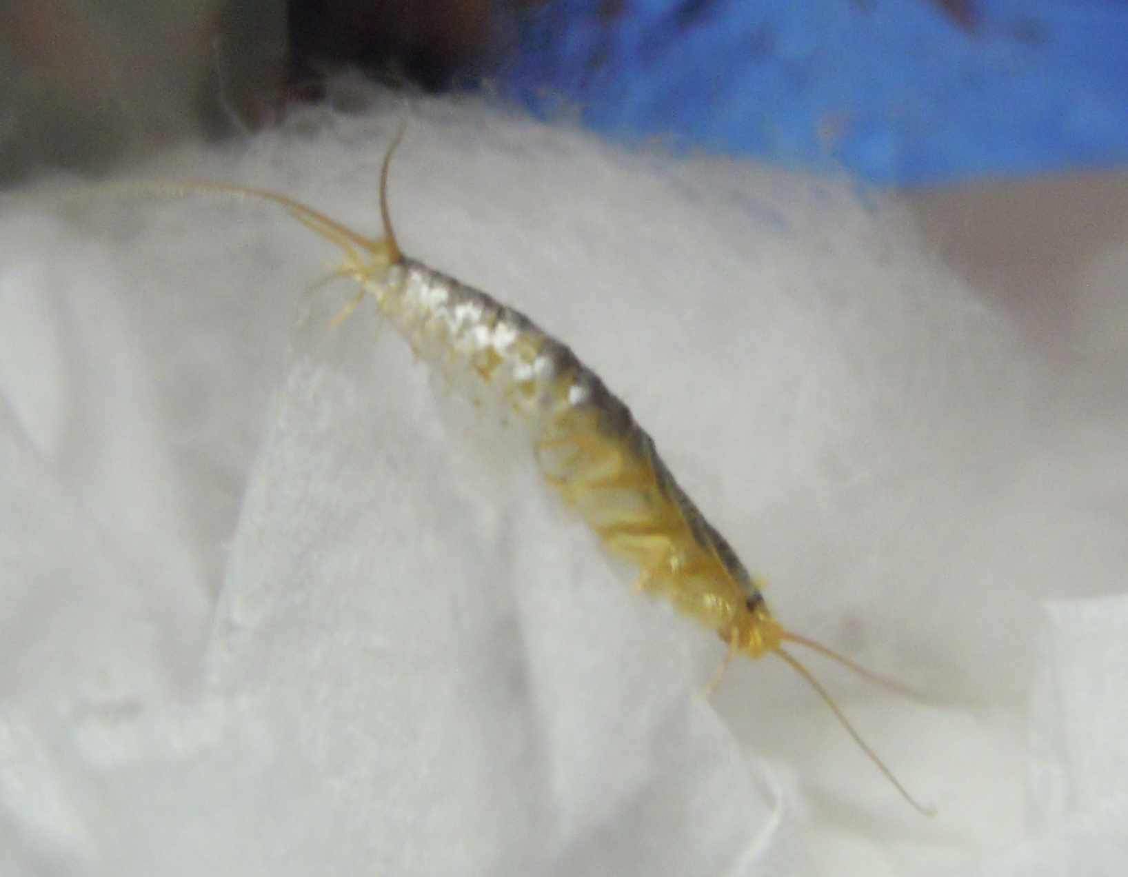 Side view (female), Ovipositor is visible under the tail.